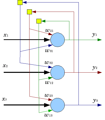 Hopfield's neural network topology